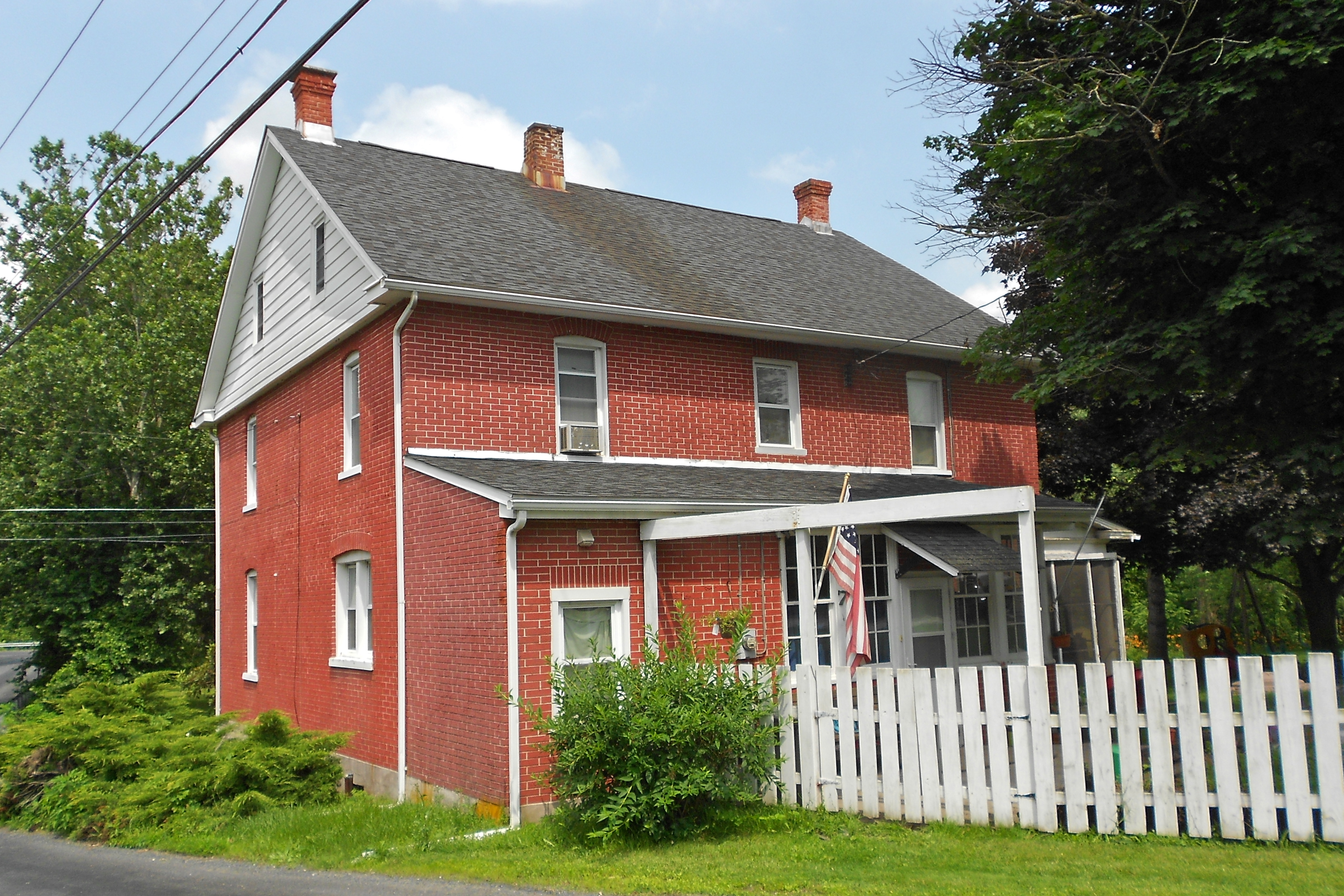 House in Zora, Liberty Township, Adams County, Pennsylvania. Note that this is just east of the township border.